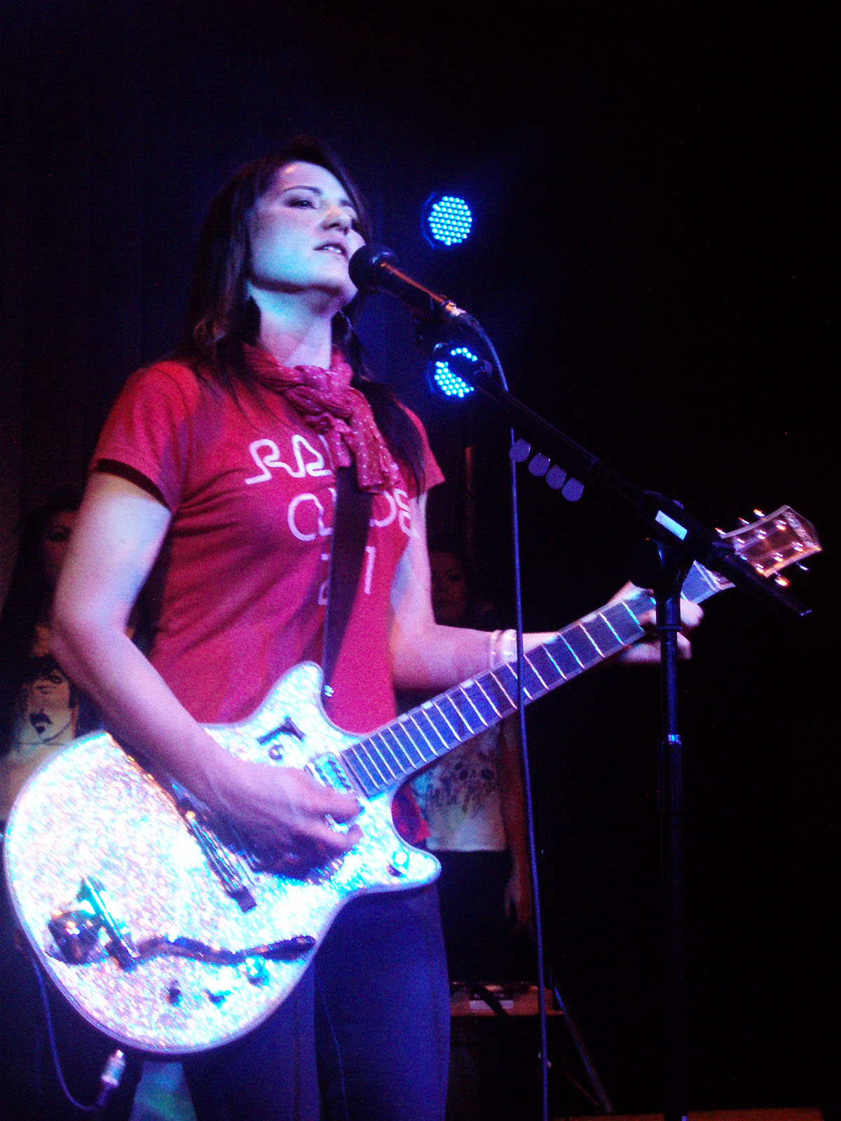 At AIR Studios in London as part of iTunes Live: London Sessions, 24/02/08.